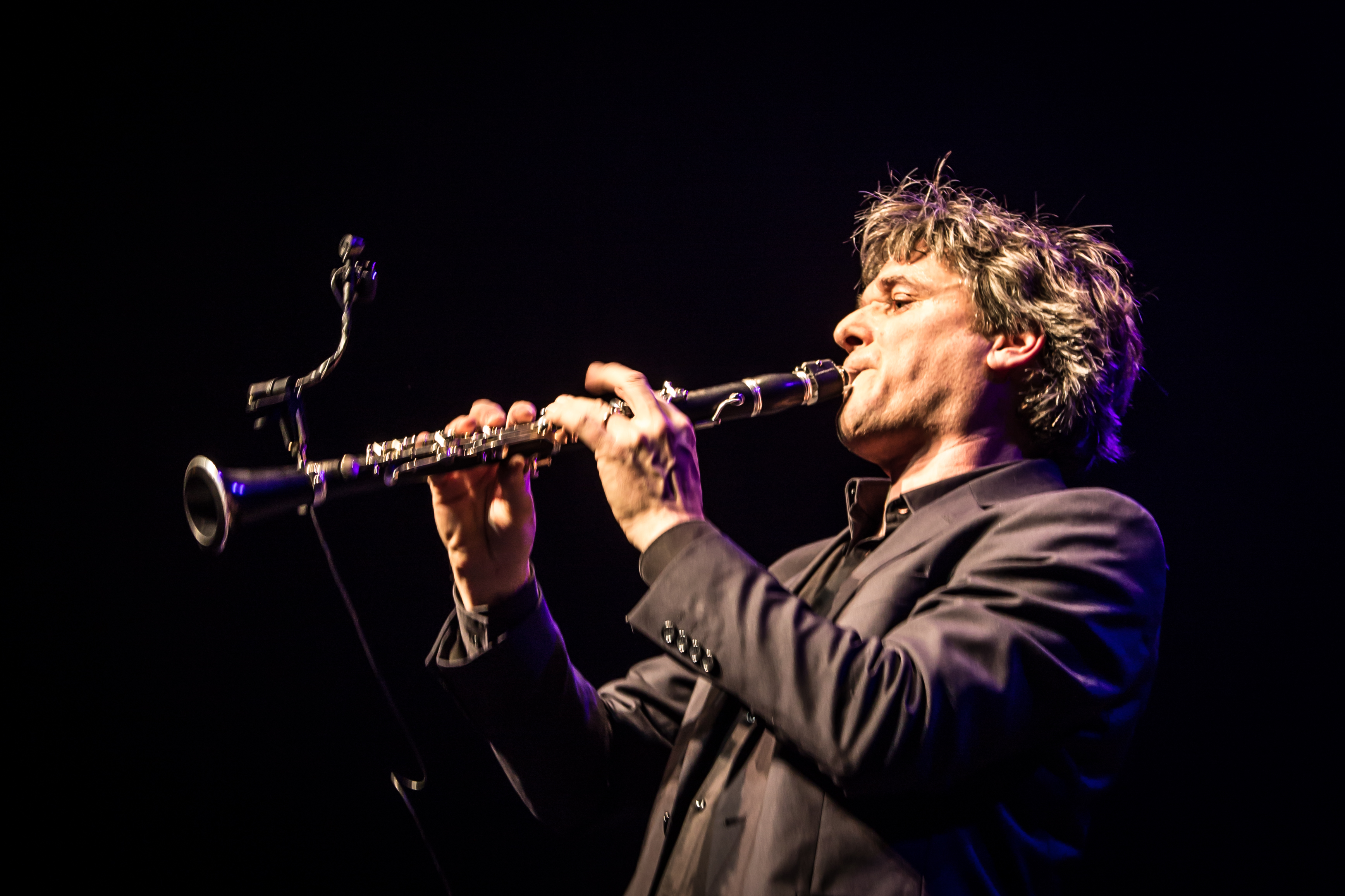 Austrian musician and kabarett artist Christof Spörk at the Internationale Kulturbörse Freiburg 2018